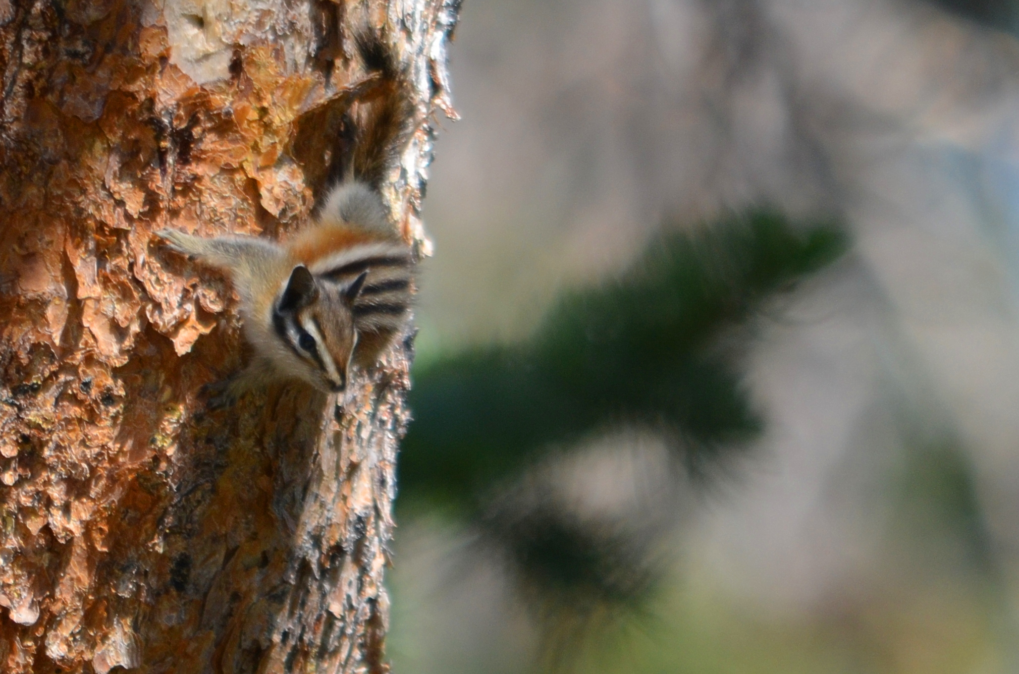 Alpine Chipmunk (Tamias alpinus) on a redwood tree in the high Sierras in California.